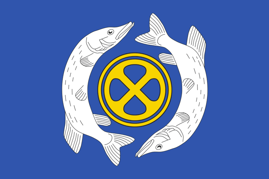 Flag of Shchuche, Kurgan Oblast, Russia